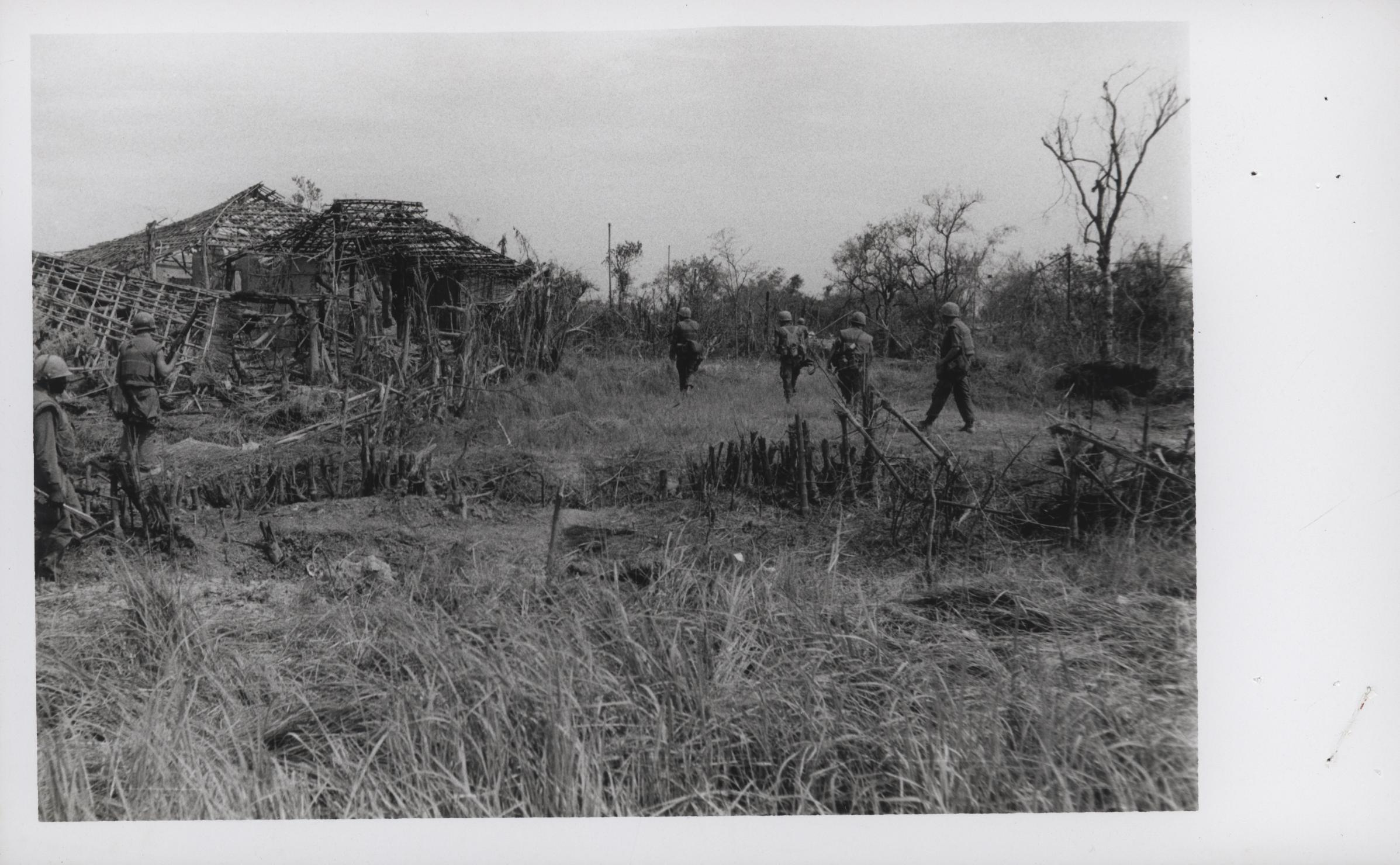 "May 1968: Moving In: Leathernecks of the 2d Battalion, 4th Marines [2/4] move into Dai Do village after three days of heavy fighting with NVA forces east of Dong Ha during Operation Napoleon Saline (official USMC photo by Private First Class Thurston Bechtel)." From the Jonathan F. Abel Collection (COLL/3611), Marine Corps Archives & Special Collections OFFICIAL USMC PHOTOGRAPH